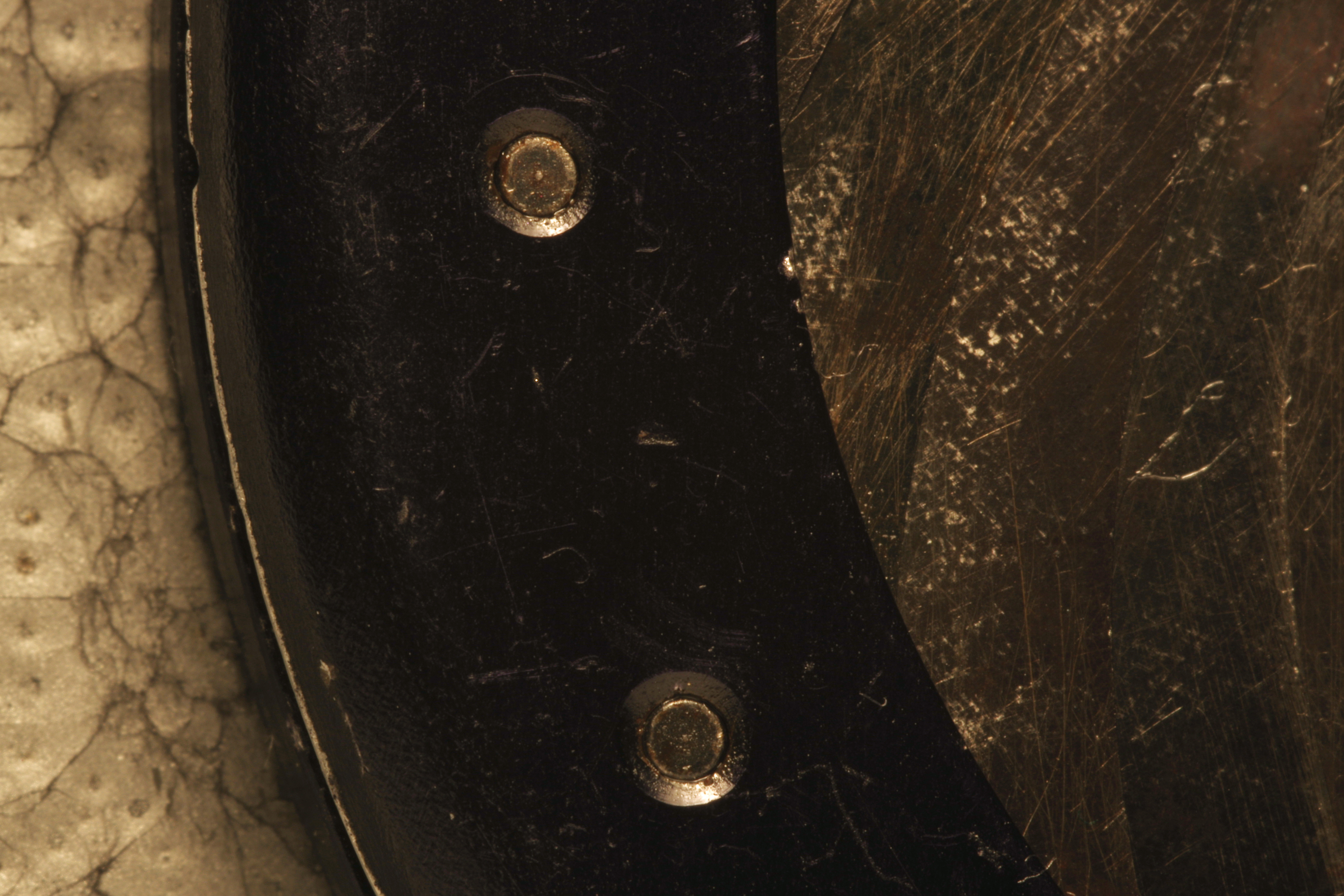 This is a zoom on the mechanical parts that allows the variation of the aperture of a diaphragm.